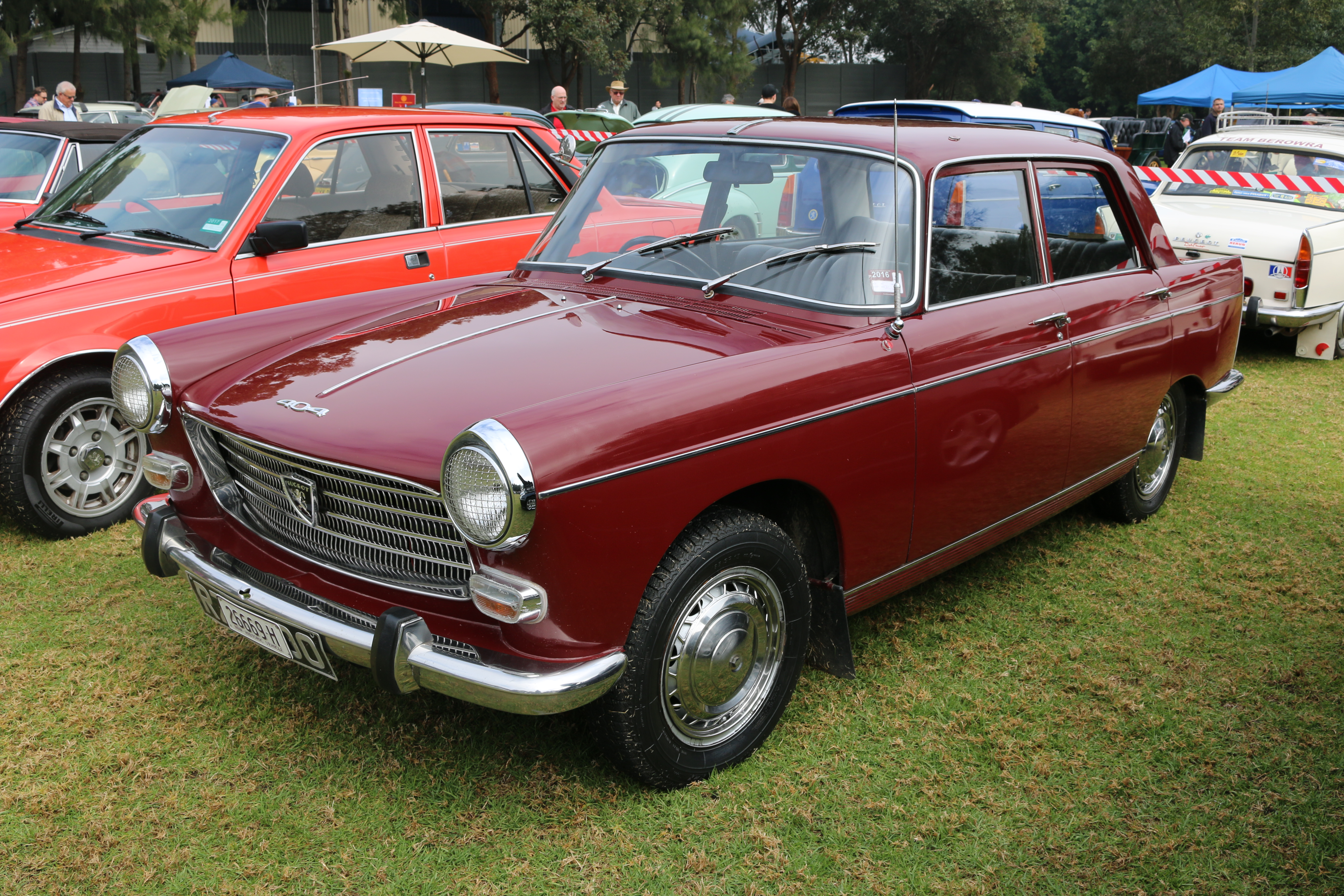 All French Day, Silverwater Park, NSW July 2016